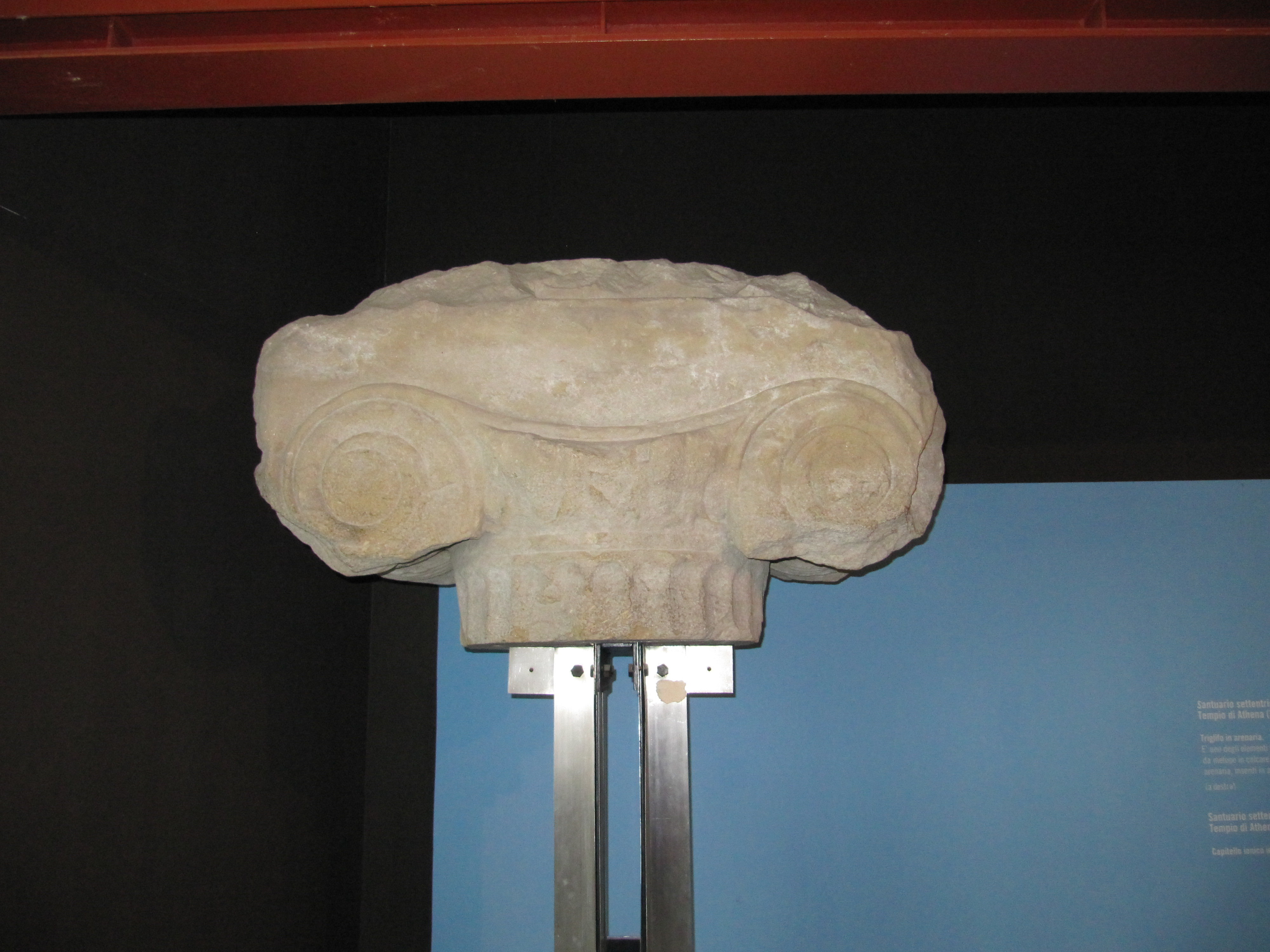 Ionic capital